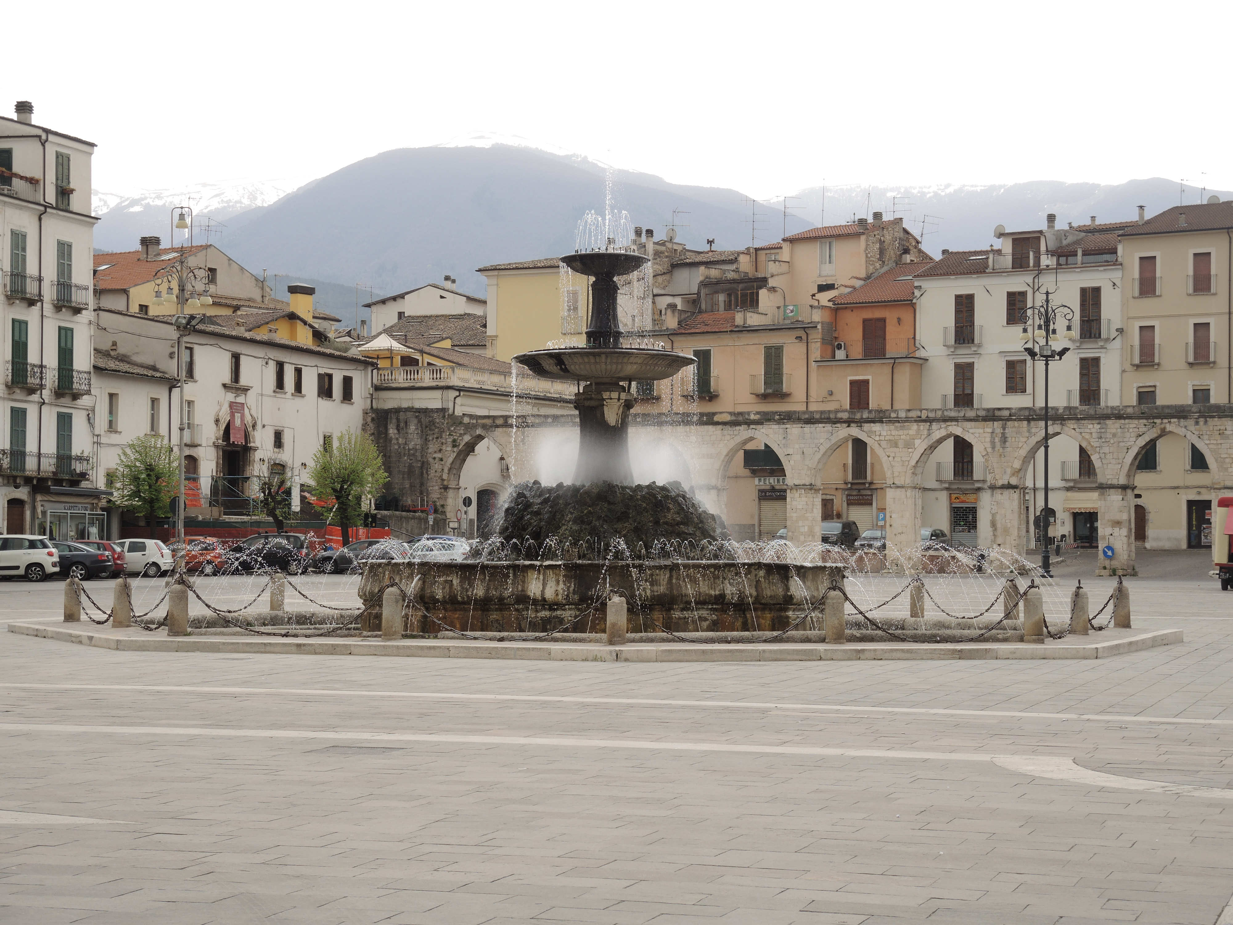 Sulmona: Piazza Giuseppe Garibaldi